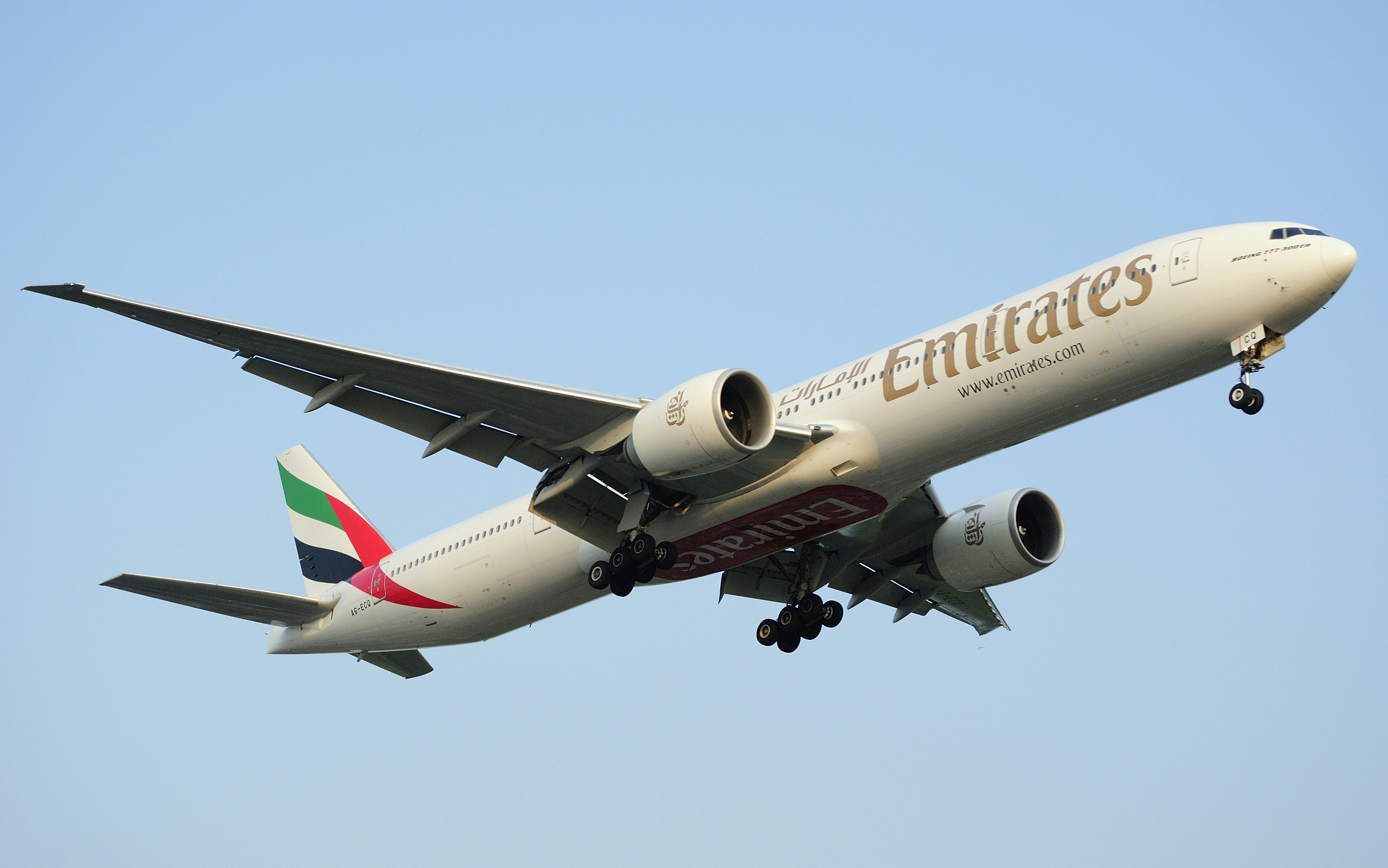 Boeing 777-300ER of Emirates at London Gatwick Airport